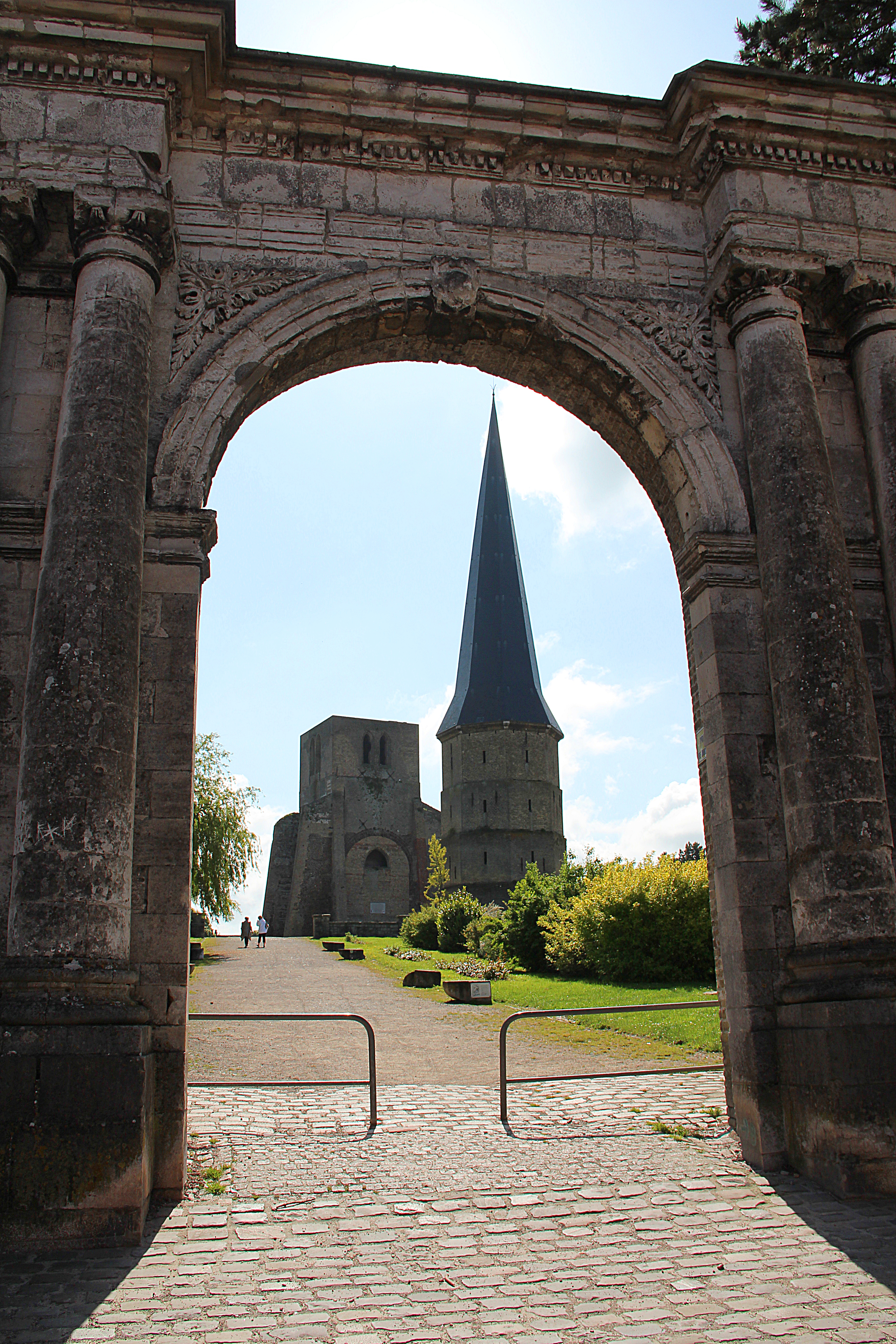 Portal and towers of the former Saint-Winoc abbey built, destroyed and rebuilt between the 13th and 18th centuries in: Bergues (Nord department, France).